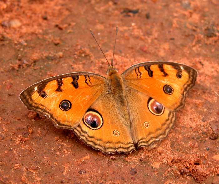 Peacock Pansy Junonia almana photographed in Bangalore, India.